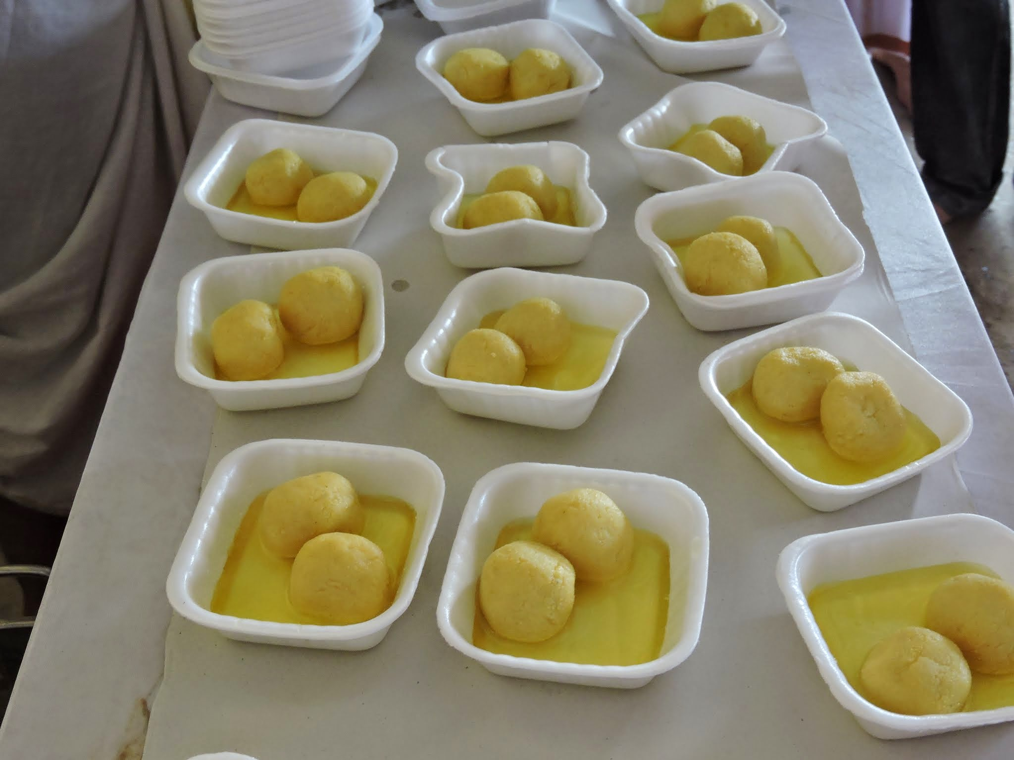 Delicious rasamalai sweet served in cups